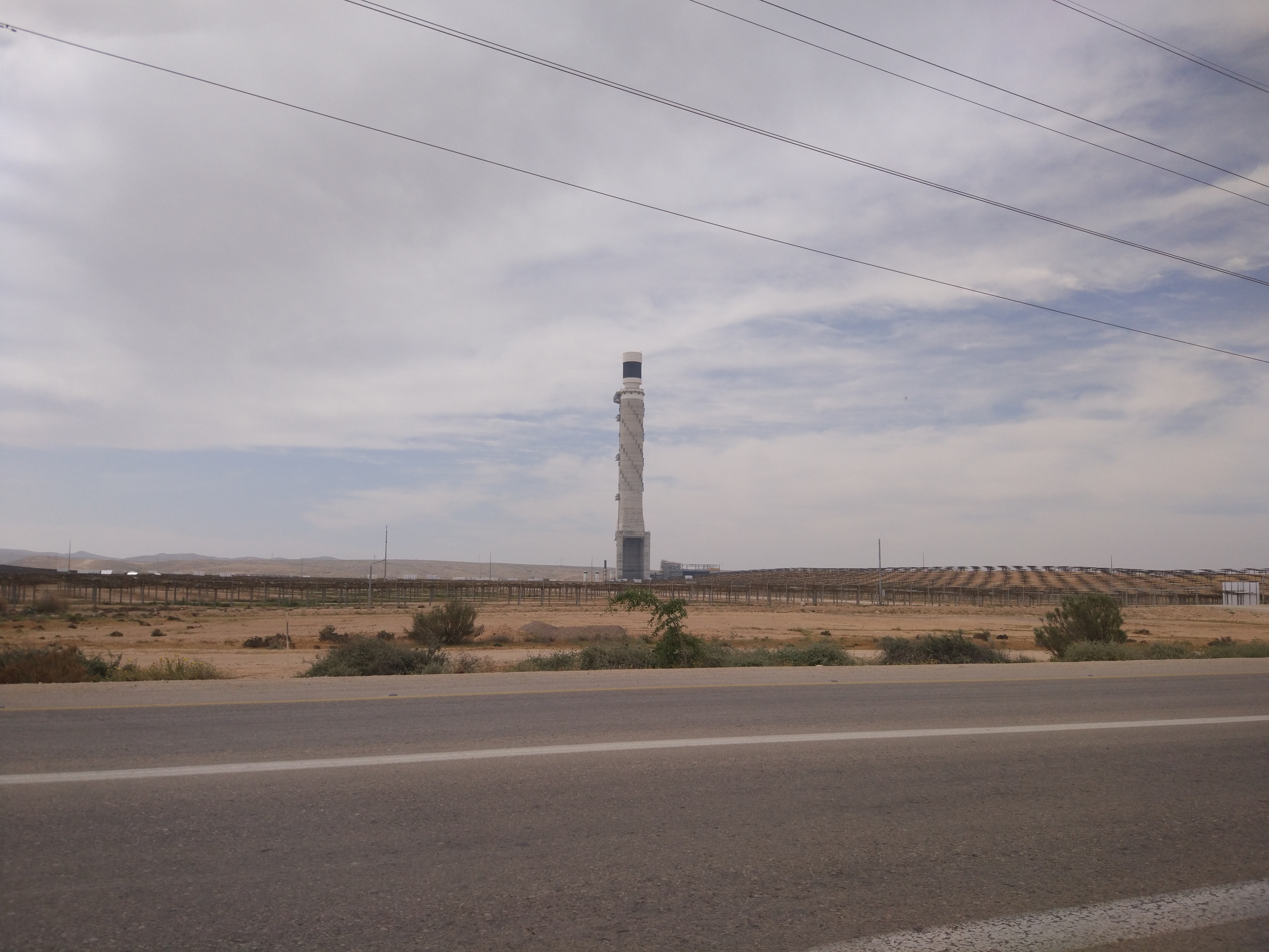 Solar power tower of the Ashalim power station, 2018